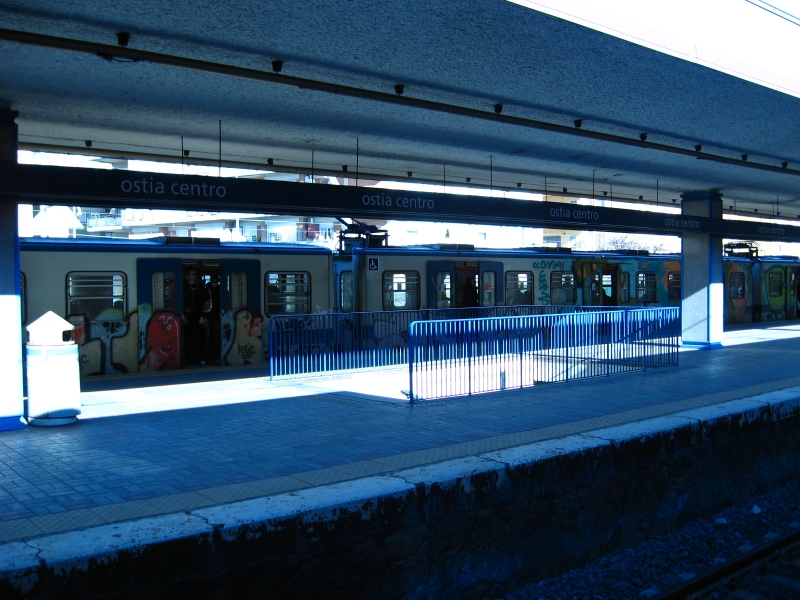 Lido Centro Railway Station in Rome.